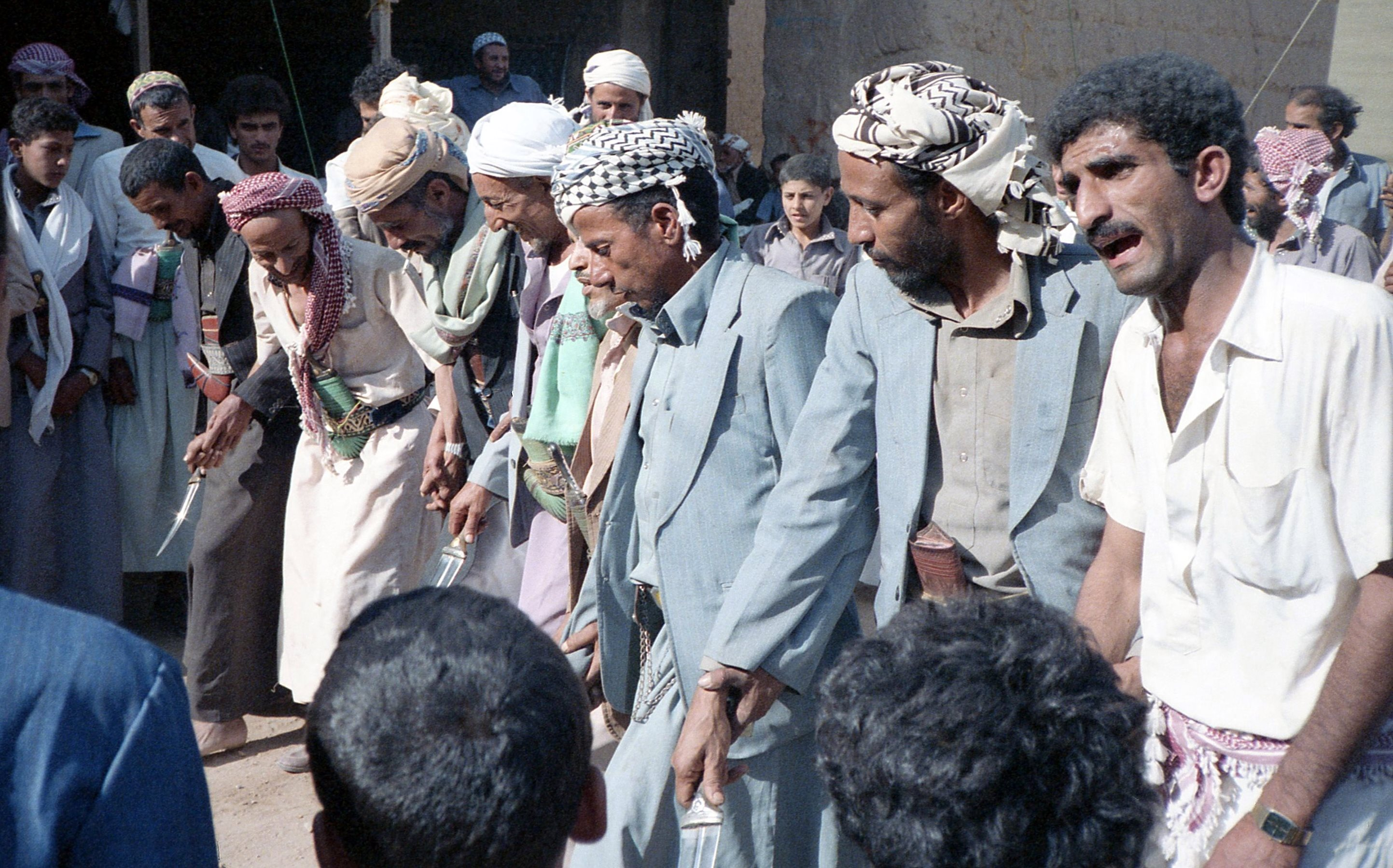 Dance in Sa'dah, Yemen